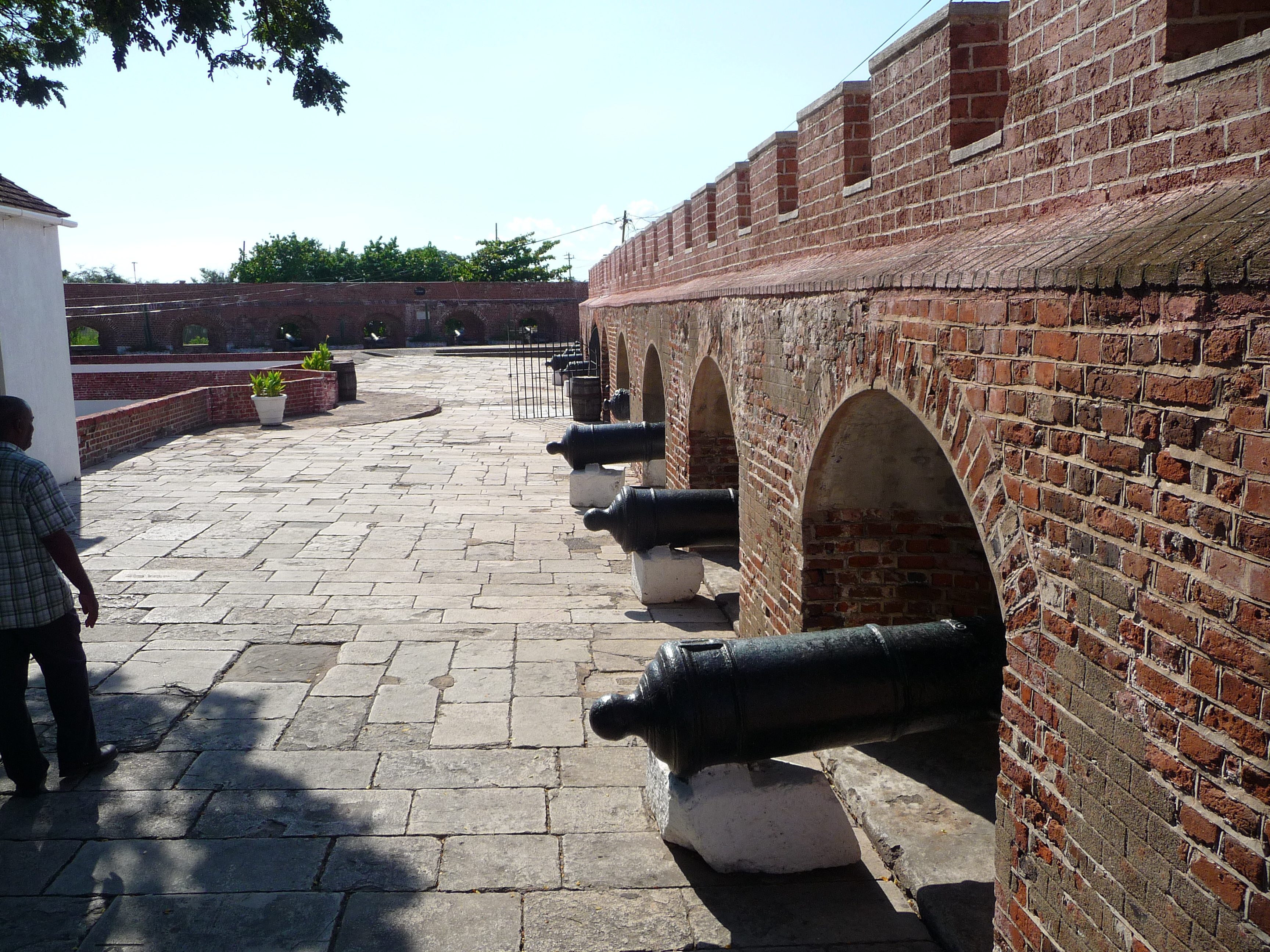 Many original and replica cannons flank the perimeter of this historic fortress.